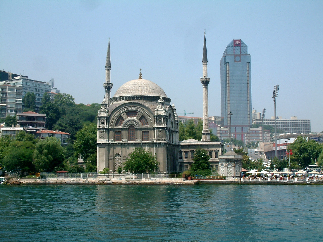 This image shows Bezm-i Âlem Valide Sultan Camii, also known as Dolmabahçe Mosque, in Istanbul, Turkey, viewed from the Bosphorus. The high-rise building to the right is the Ritz-Carlton Istanbul; all the way to the right a corner can be seen of Fi-Yapı İnönü Stadı, also known as BJK İnönü Stadium. It is about 1 km away from Nusretiye Mosque and built roughly during the same period.